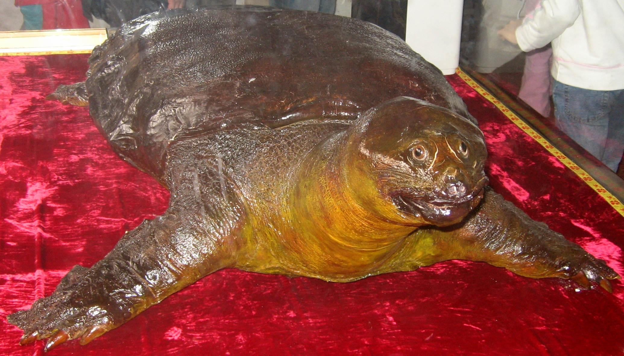 Tortoise Hồ Gươm